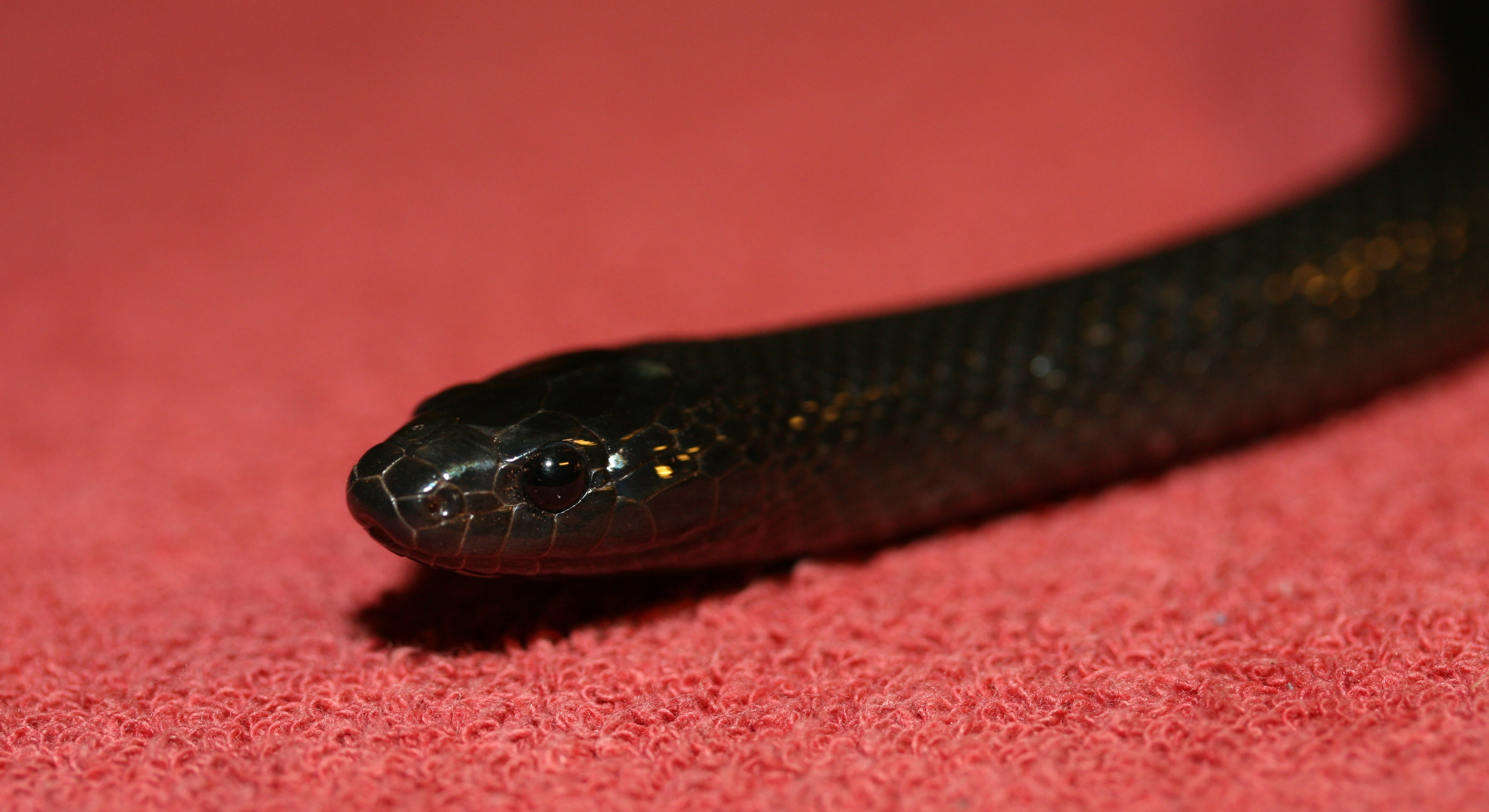 Lampropeltis Mexicana Thayeri snake in private collection of Jakub Seif.